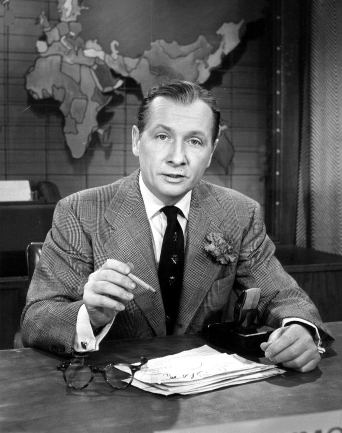 Photo of journalist John Cameron Swayze on the set of the Camel News Caravan, an early network news program on NBC.